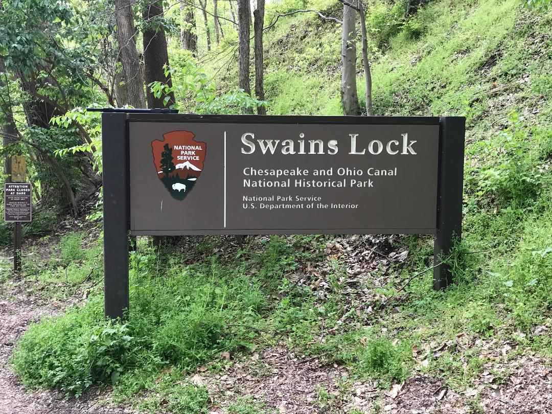 This is the National Park Service sign outside of the Swains Lock (#21) on the C&O Canal in Travilah/Potomac Maryland.